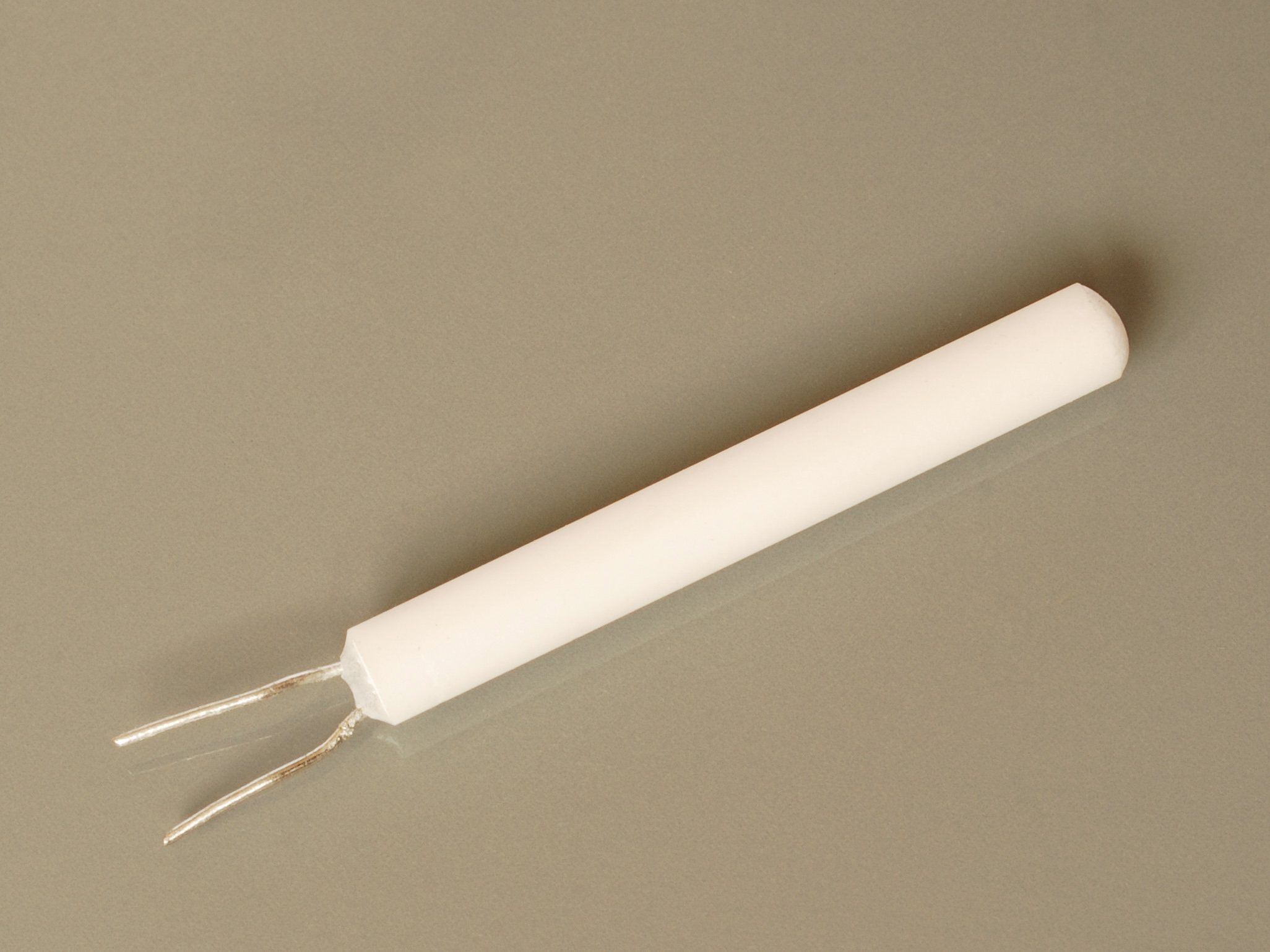 Wire Wound Pt100 resistor. Length 25 mm, Diameter 3 mm.